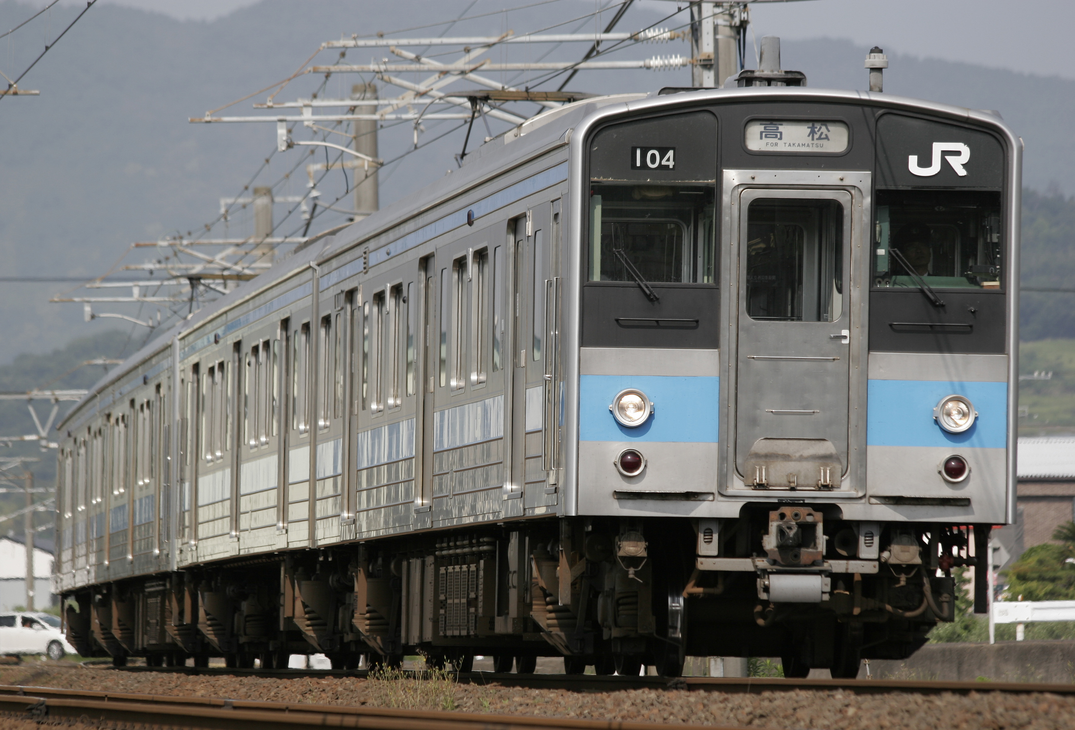 JR Shikoku 121 series EMUs on the Yosan Line in Shikoku, Japan